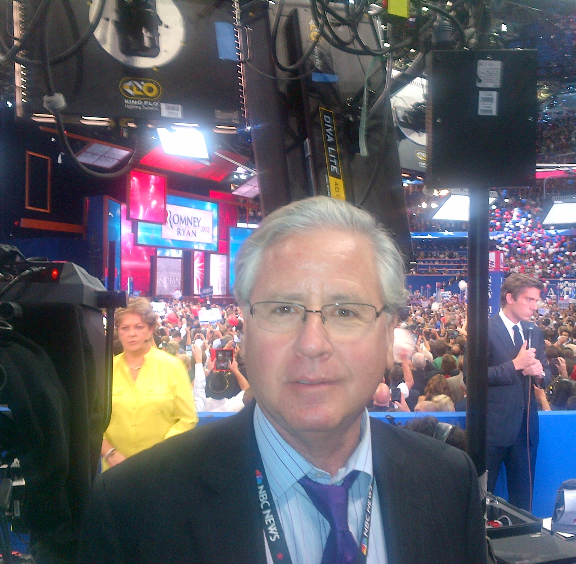 Howard Fineman at the 2012 Republican National Convention in Tampa, Florida on Aug. 30, 2012 at the moment Romney was nominated. As the author of this photo, I release it under Attribution-ShareAlike Creative Commons. Others are welcome to share and modify it, so long as they attribute its original source.